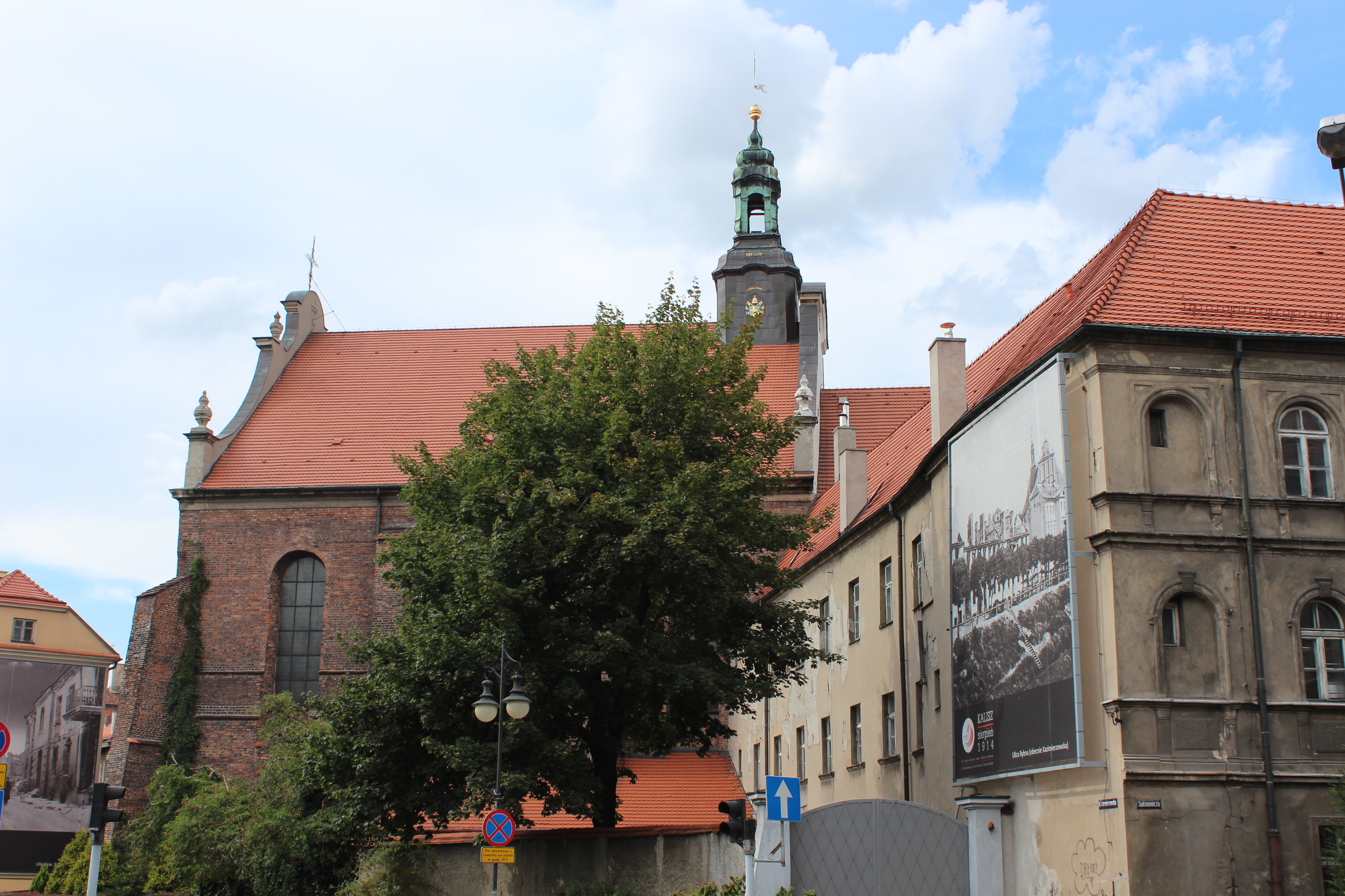 100 years since the destruction of Kalisz 1914-2014